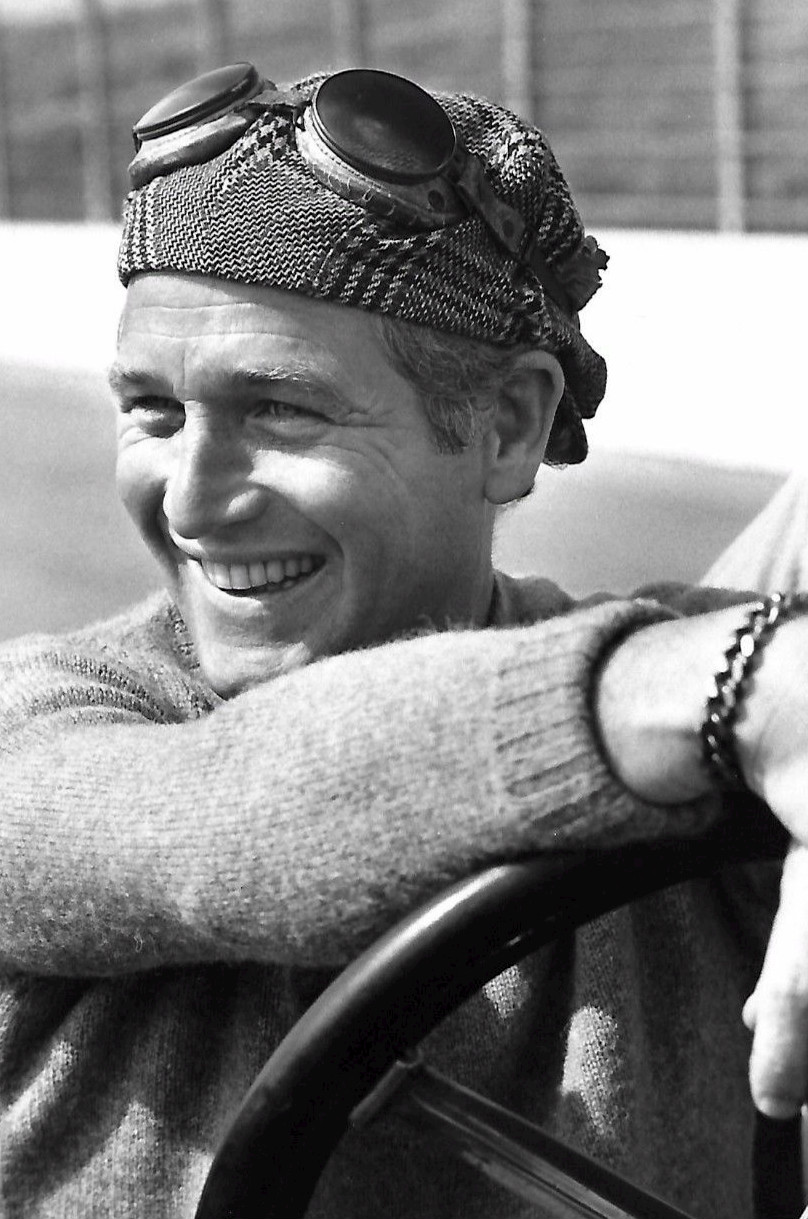 Photo of Paul Newman from the ABC Television special about auto racing, "Once Upon a Wheel".